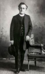 Father George Schoener